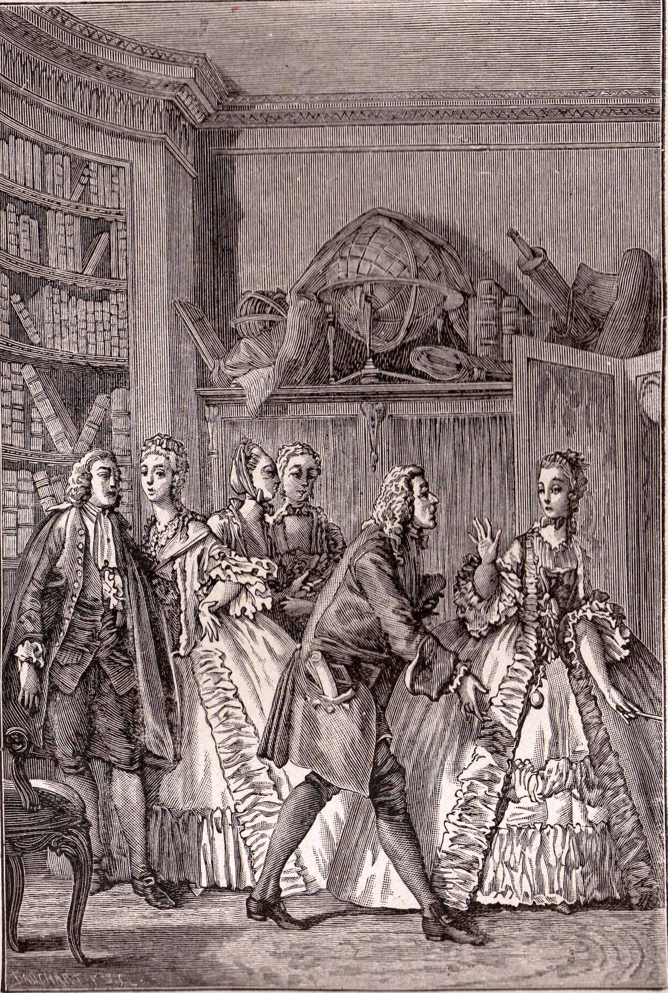 Drawing by Jean-Michel Moreau (Moreau le jeune = "Moreau the Younger")